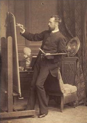 Photo of Swedish artist Julius Kronberg